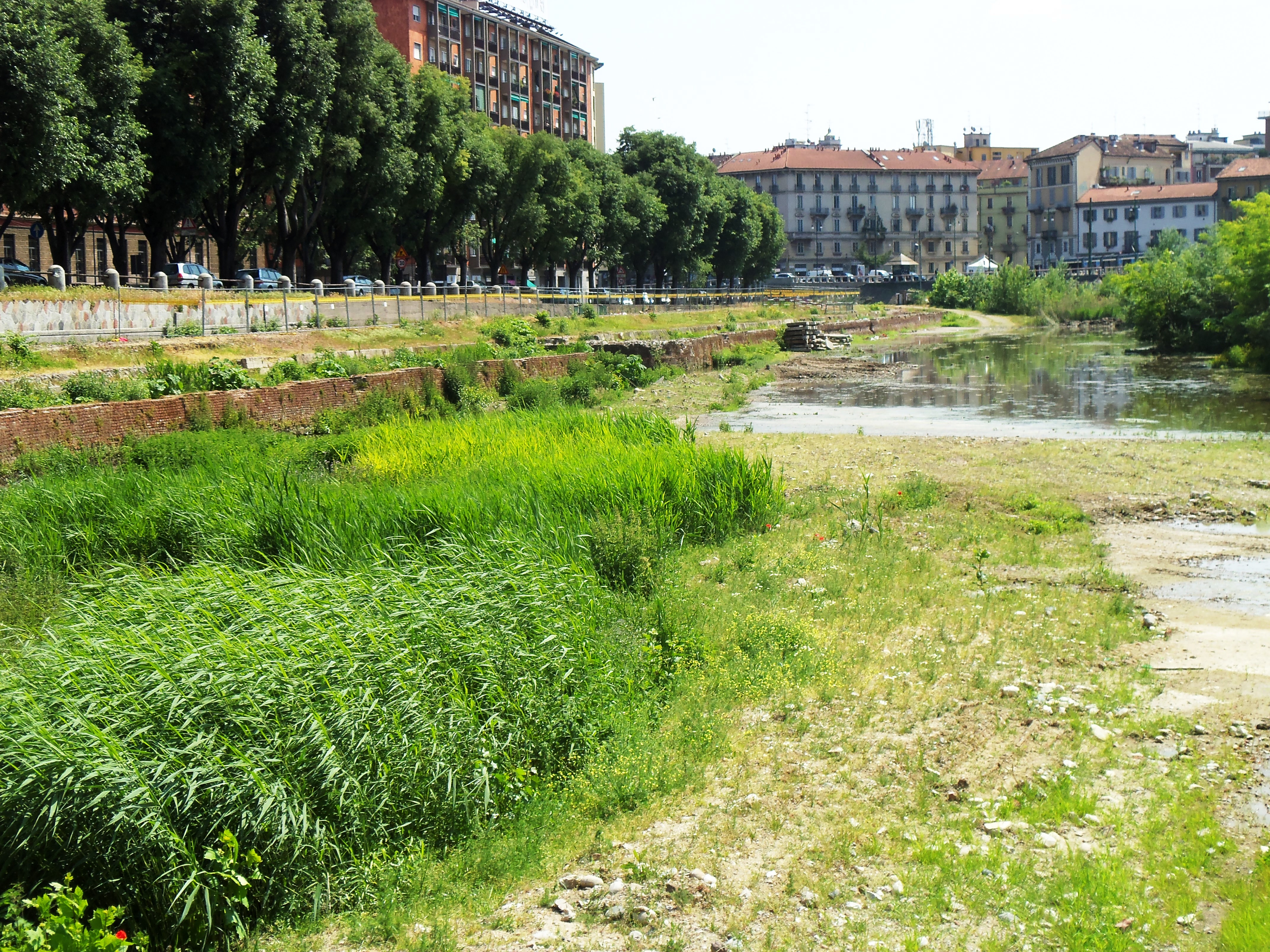 Milano, darsena: the foundations of spanish walls (end of 16th century) in medium basin.